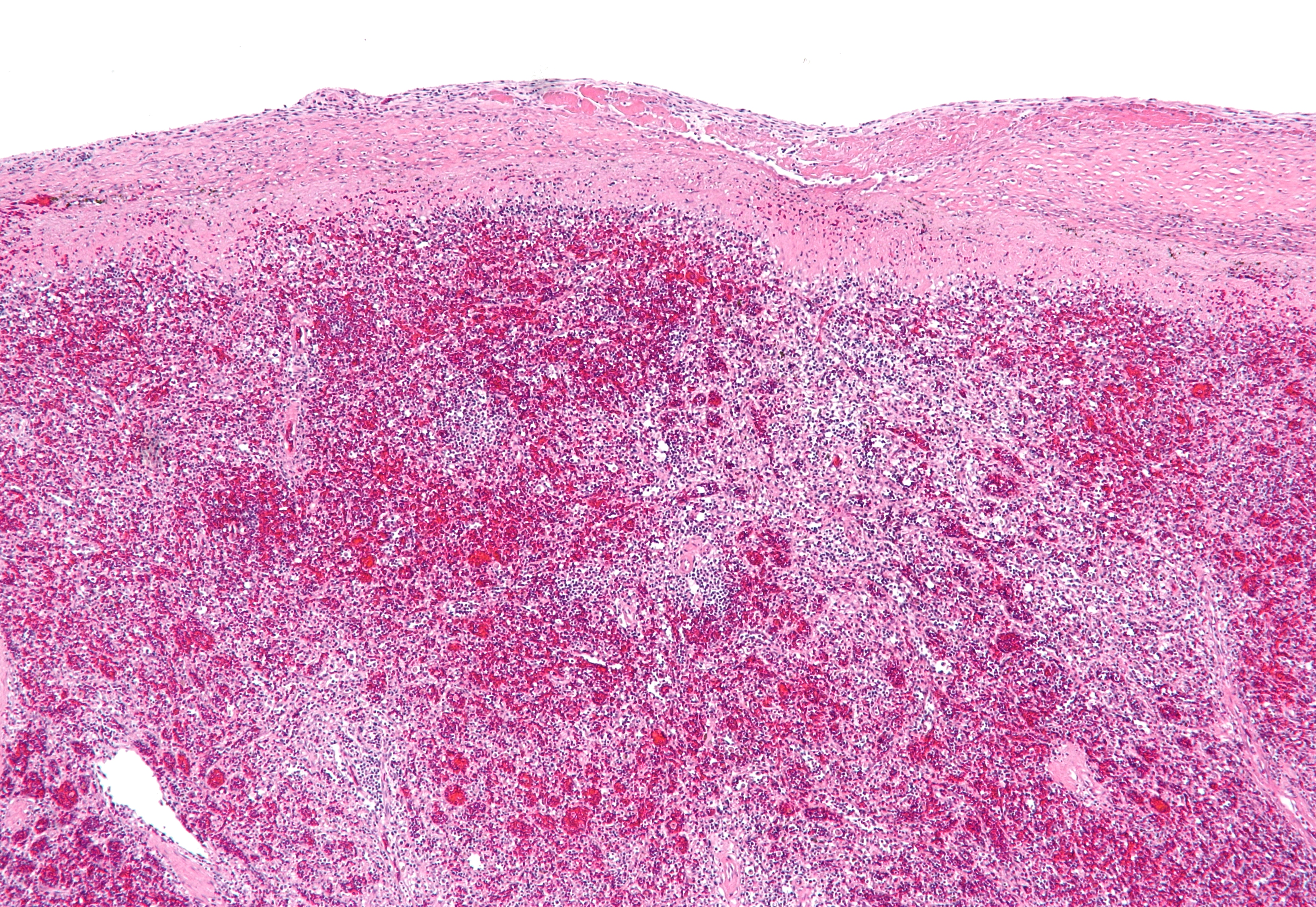 Low magnification micrograph of hyaloserositis of the spleen, also known as sugar-coated spleen. H&E stain. The gross appearance is white; thus, it has the name the sugar-coated spleen. Microscopic features: Serosal inflammation (lymphocytes). Subserosal hyaline material. Related images Intermed. mag. High mag. High mag.